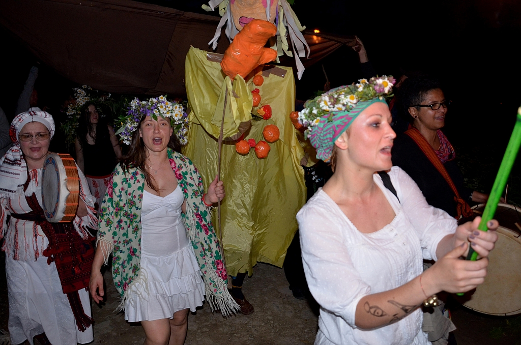 Wickerman Event 2013 in Wola Sękowa